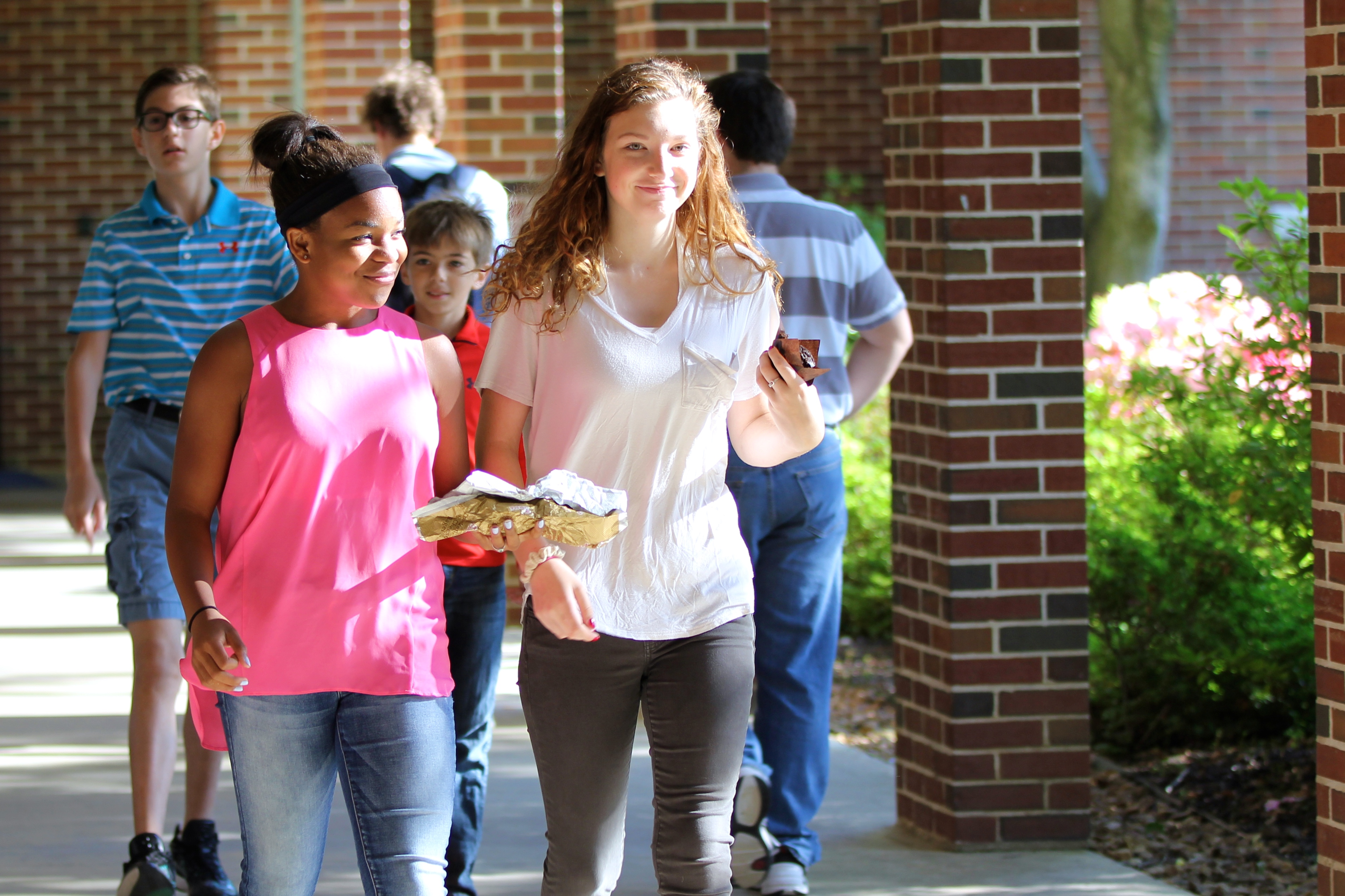 two girls walking through one of Lausanne's breezeways.